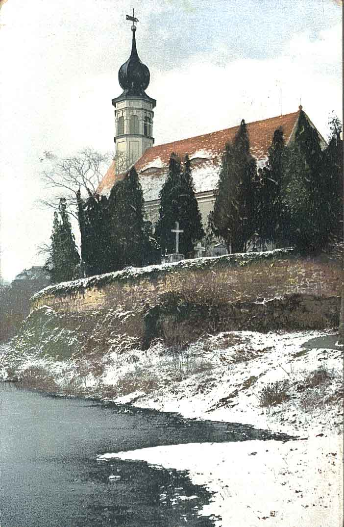 River Elbe Hosterwitz near Dresden Church Maria am Wasser at wintertime